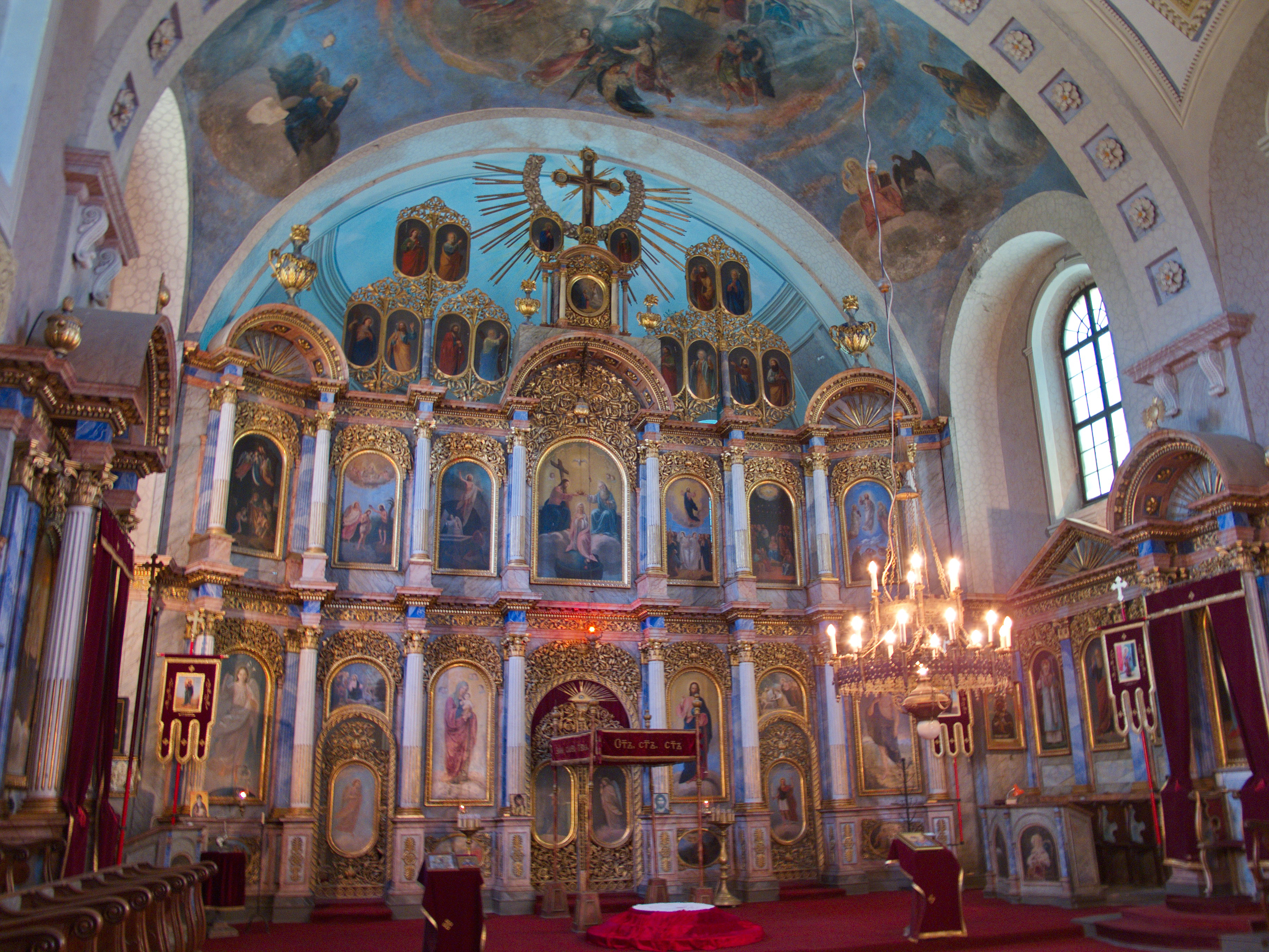 Srpska pravoslavna crkva u Novom Miloševu, mestu u opštini Novi Bečej, je podignuta 1842. godine.Crkva je posvećena Arhanđelima Mihailu i Gavrilu. Rezbarija ikonostasa je uzdržan klasicistički, bidermajerski rad nepoznatog majstora. Nikola Aleksić slikao je 1855. godine ikone, tronove i pevnice, Hristov grob, kao i zidne slike na svodu nad soleom. Ostale zidne slike na svodu i severnom zidu izveo je Josip Gojgner. Sačuvana je i jedna ikona takozvane Arapske Bogorodice s početka 19. veka.